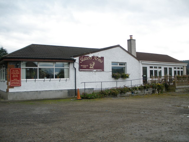 Slaters Arms Cannich